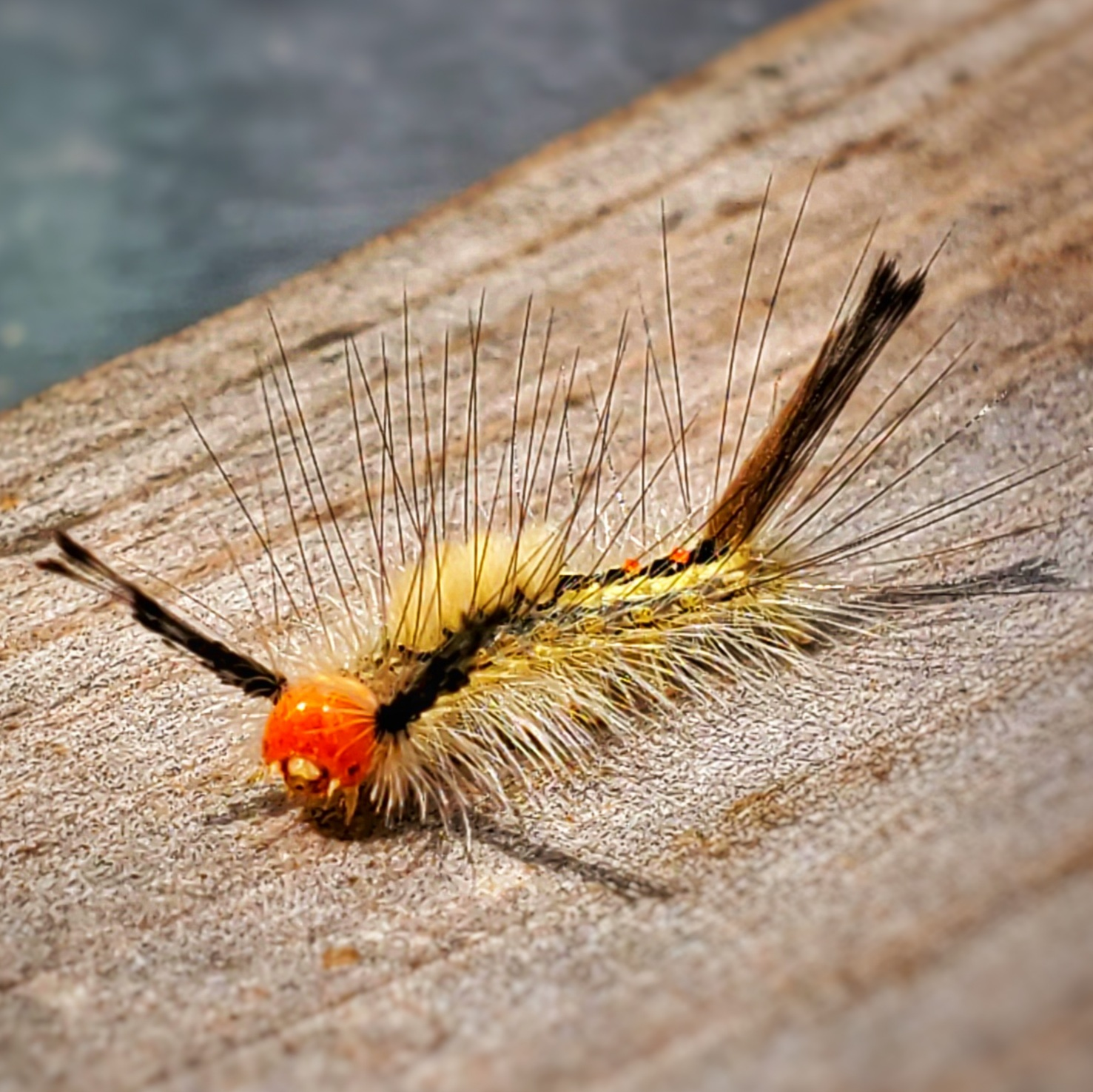 Orgyia leucostigma in Pupae stage